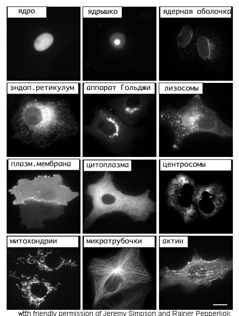 Picture of protein_localisation in cells with Russian description